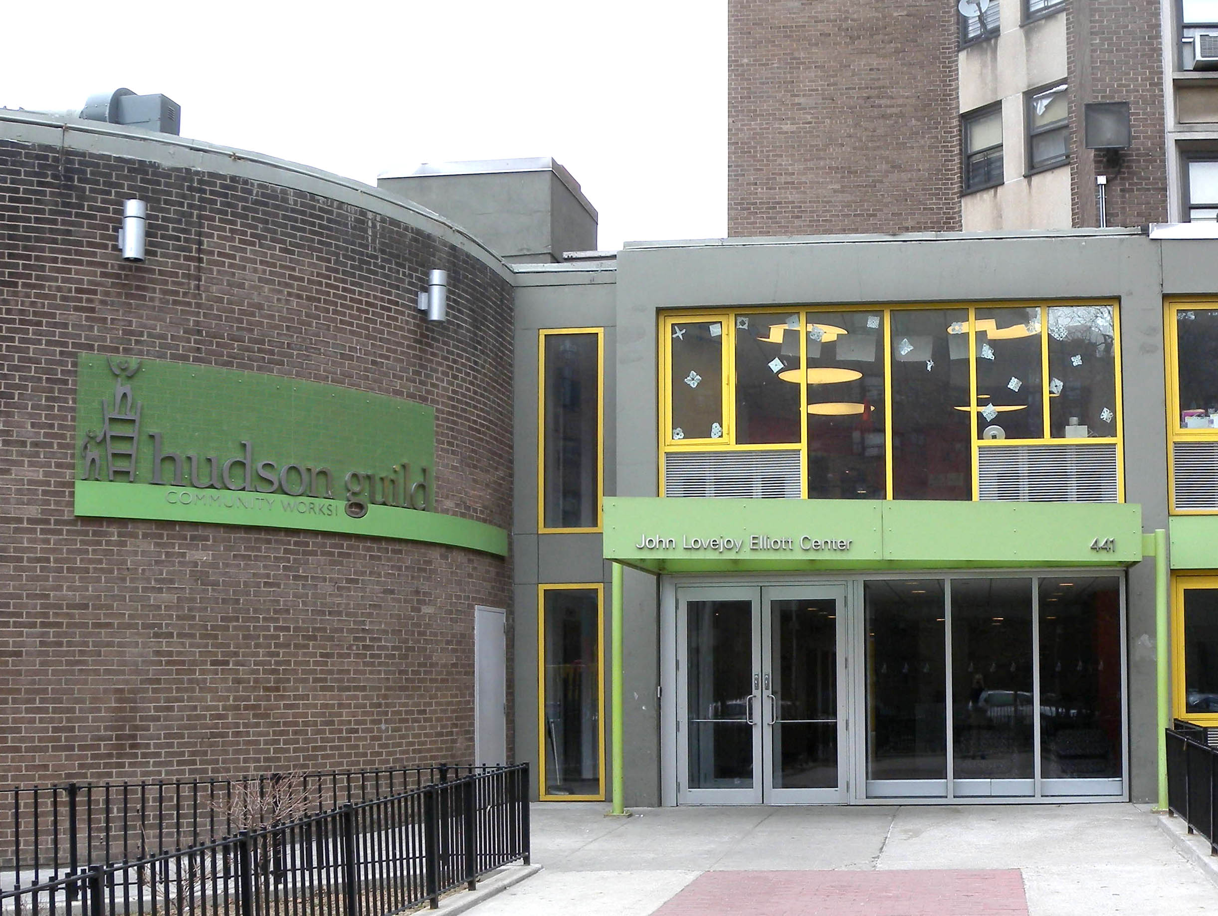 Looking north at Elliot Center of Hudson Guild, 441 W26 Street, on a cloudy afternoon.